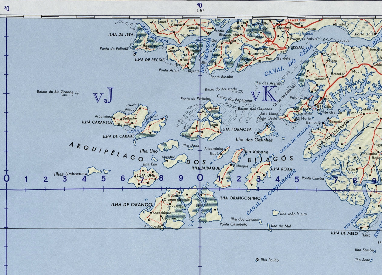 map of Bissagos Archipelago, Guinea-Bissau portion of original sheet